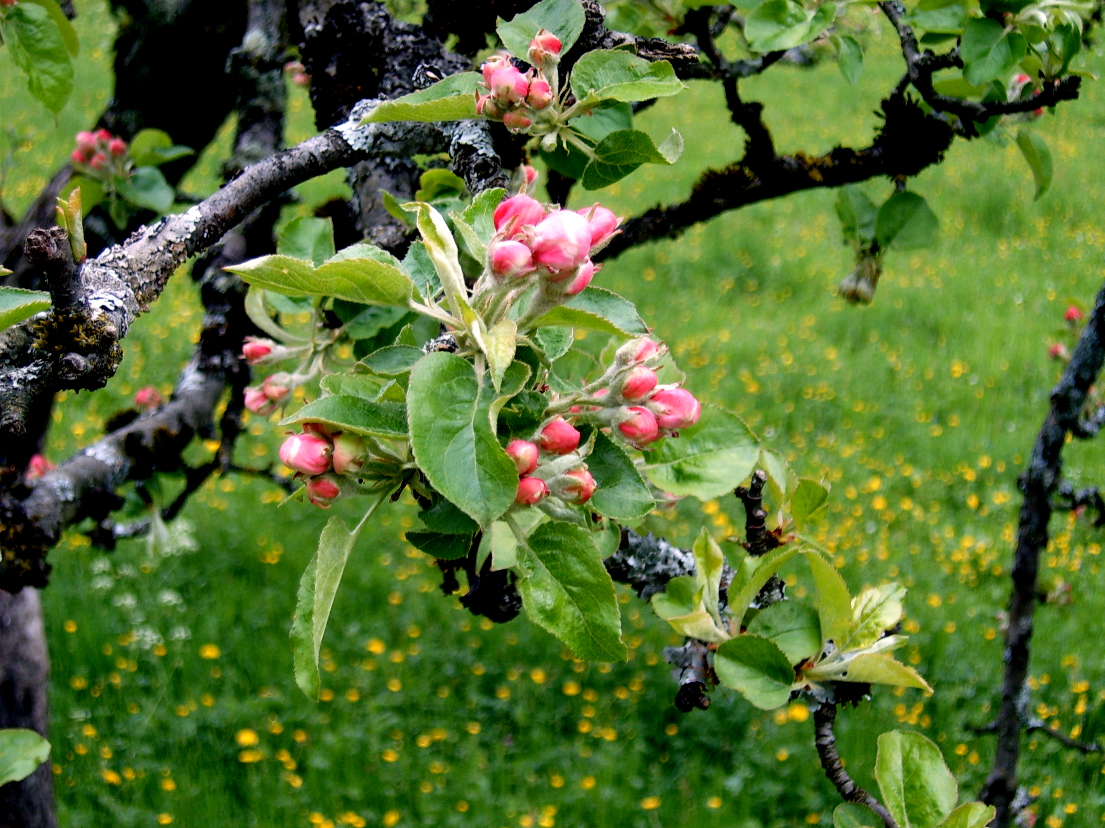 Apple flower buds in Switzerland